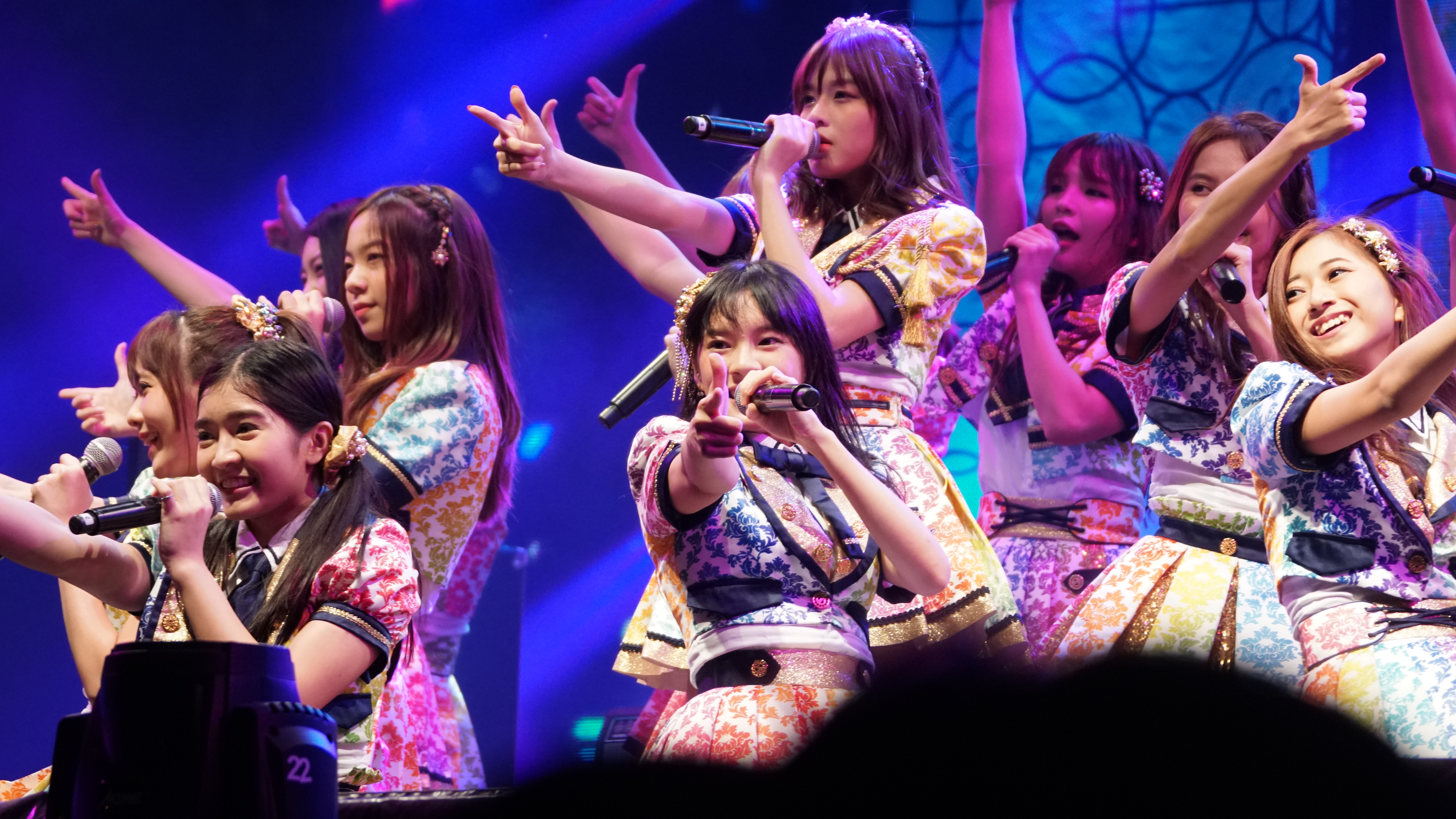 BNK48 members Noey, Kaew, Pun, Jennis, Mobile, Cherprang, Orn, Nam-Neung, and Miori, wearing the second single outfit, perform at the Cat Expo 4 music festival, held at Wonder World Extreme Park in Bangkok on 25 November 2017.